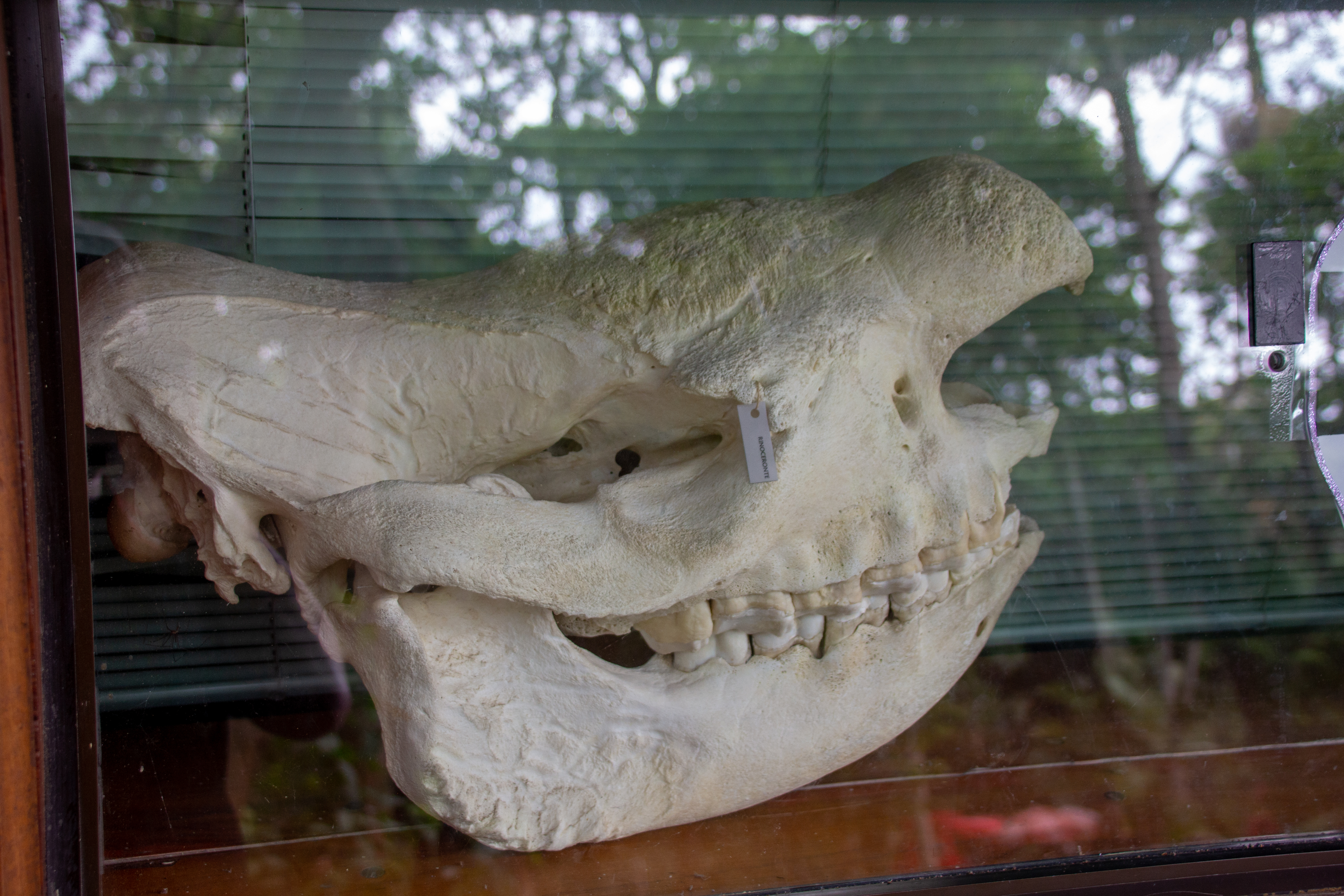 São Paulo Zoo, Brazil Skull of Cacareco